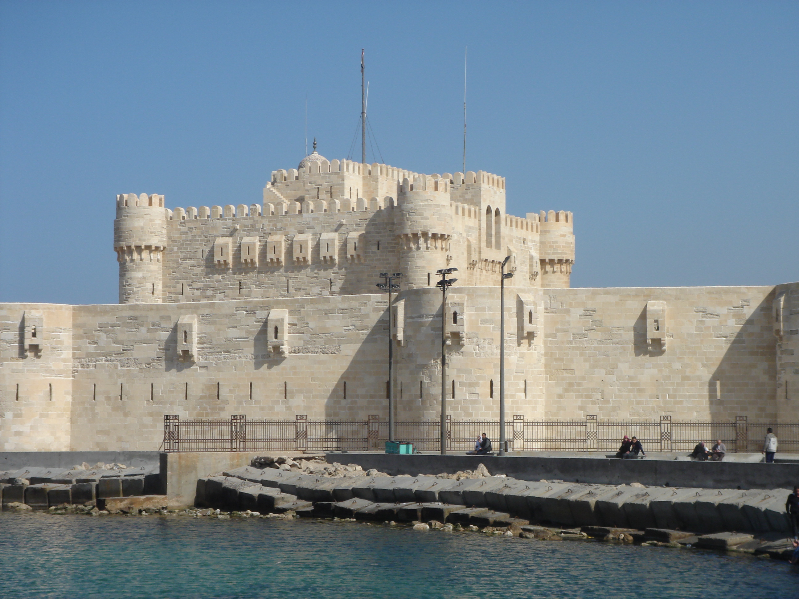 Qaitbay's Citadel built 1477 AD